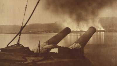 View from the British battleship HMS Cornwallis of the burning of British stores during the Allied withdrawal from Gallipoli.